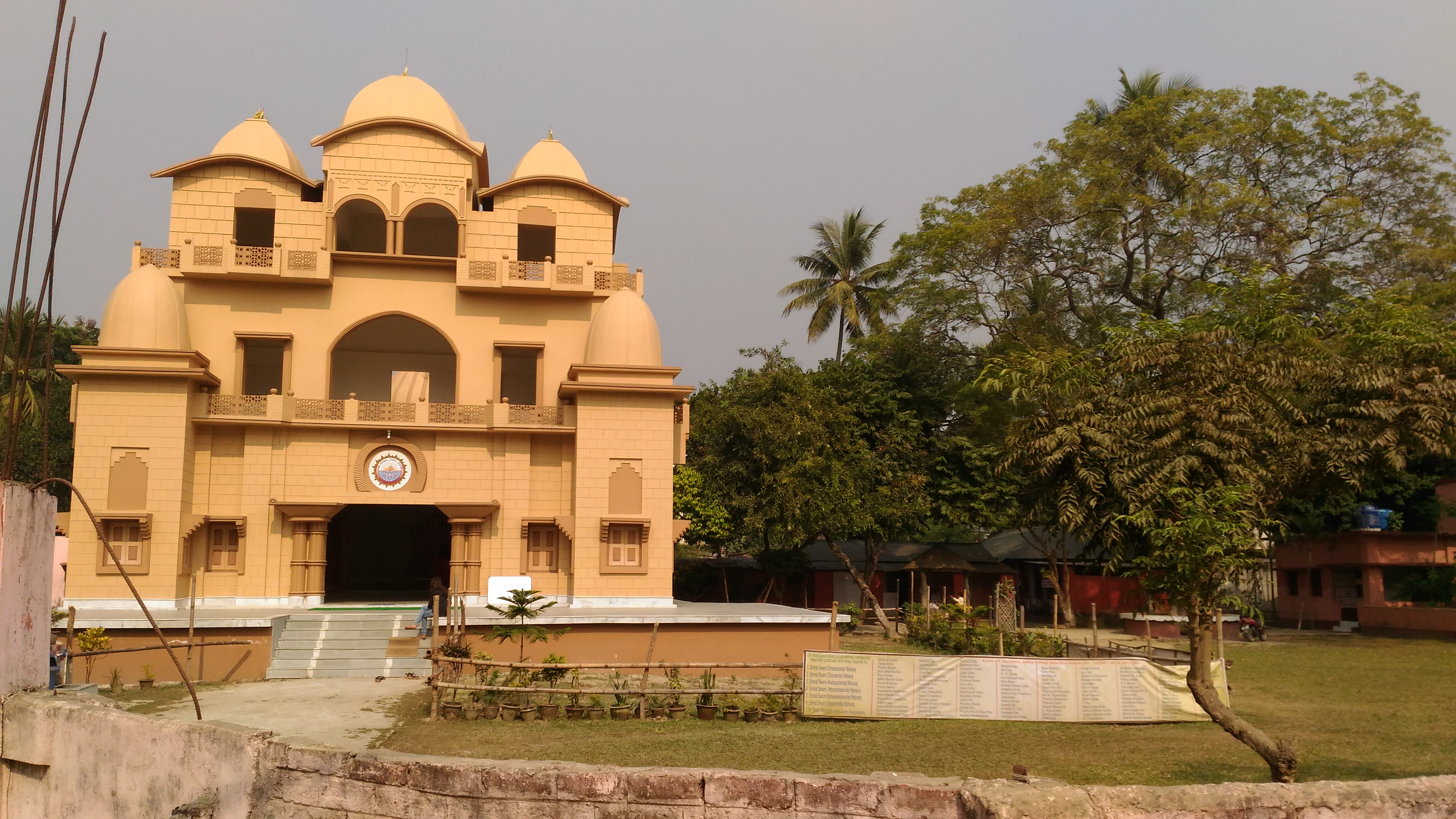 Raiganj Ram Krishna Ashram.